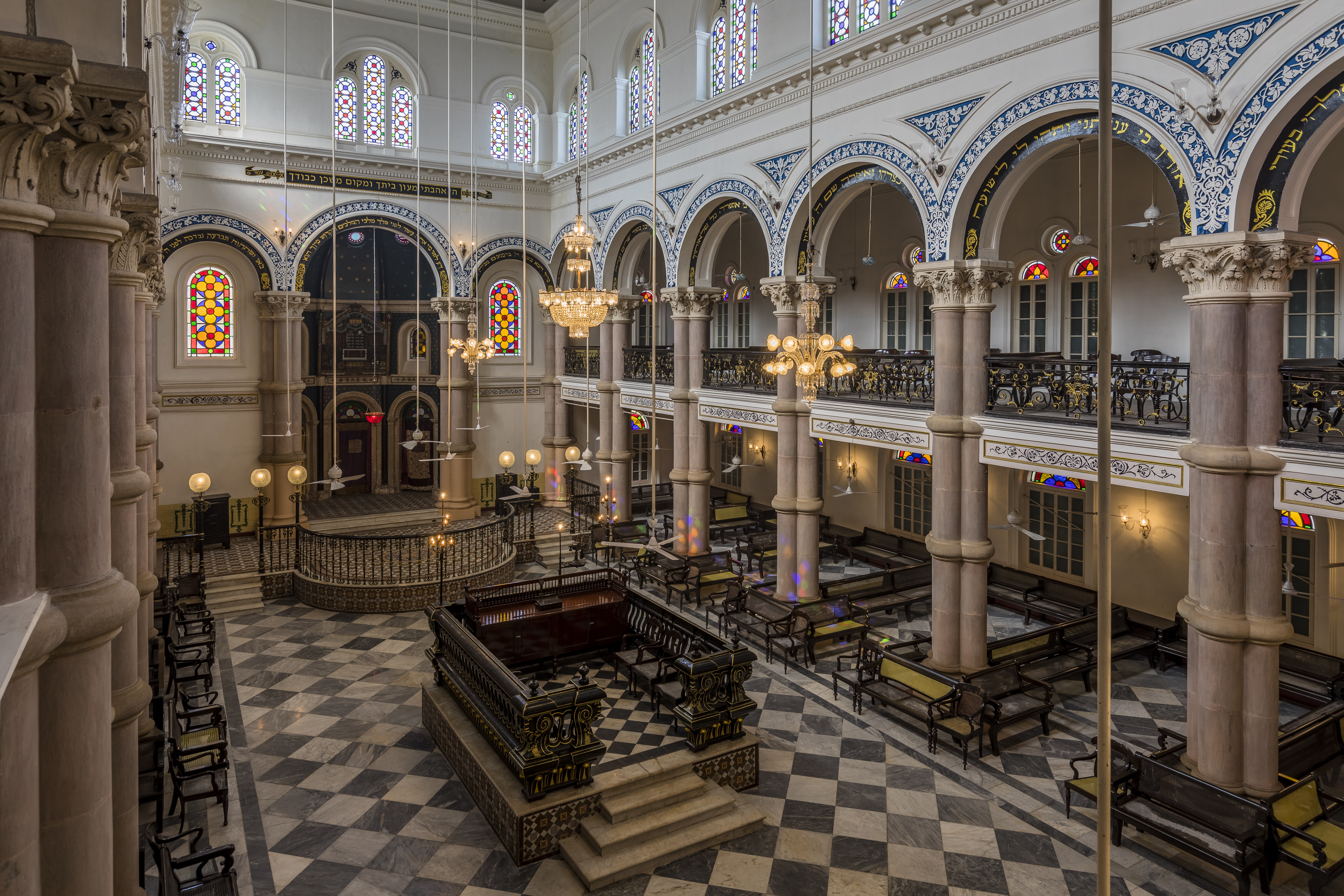 Interiors of the Magen David Synagogue of Kolkata, India after completion of restoration in 2017